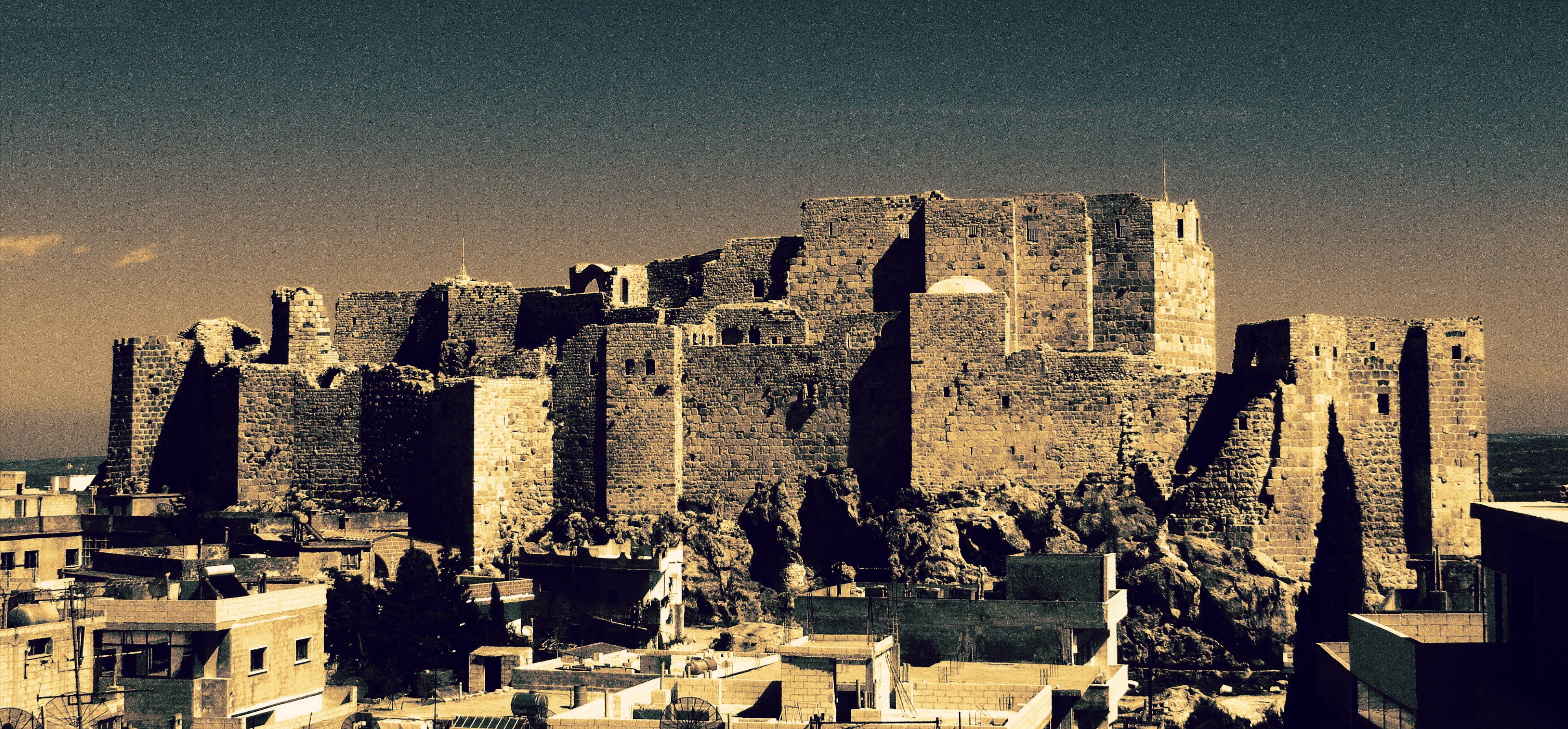 Masyaf Castle is one of the most famous historical sights in Syria. It was once the homeland of Assassins